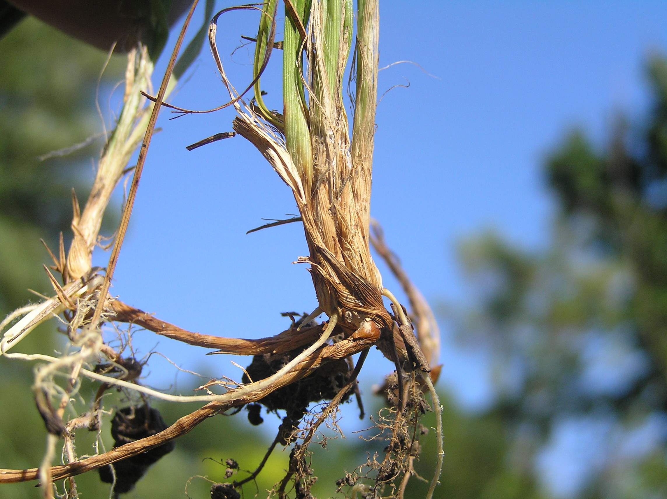 Carex michelii, Němčičky, Southern Moravia, Czech Republic